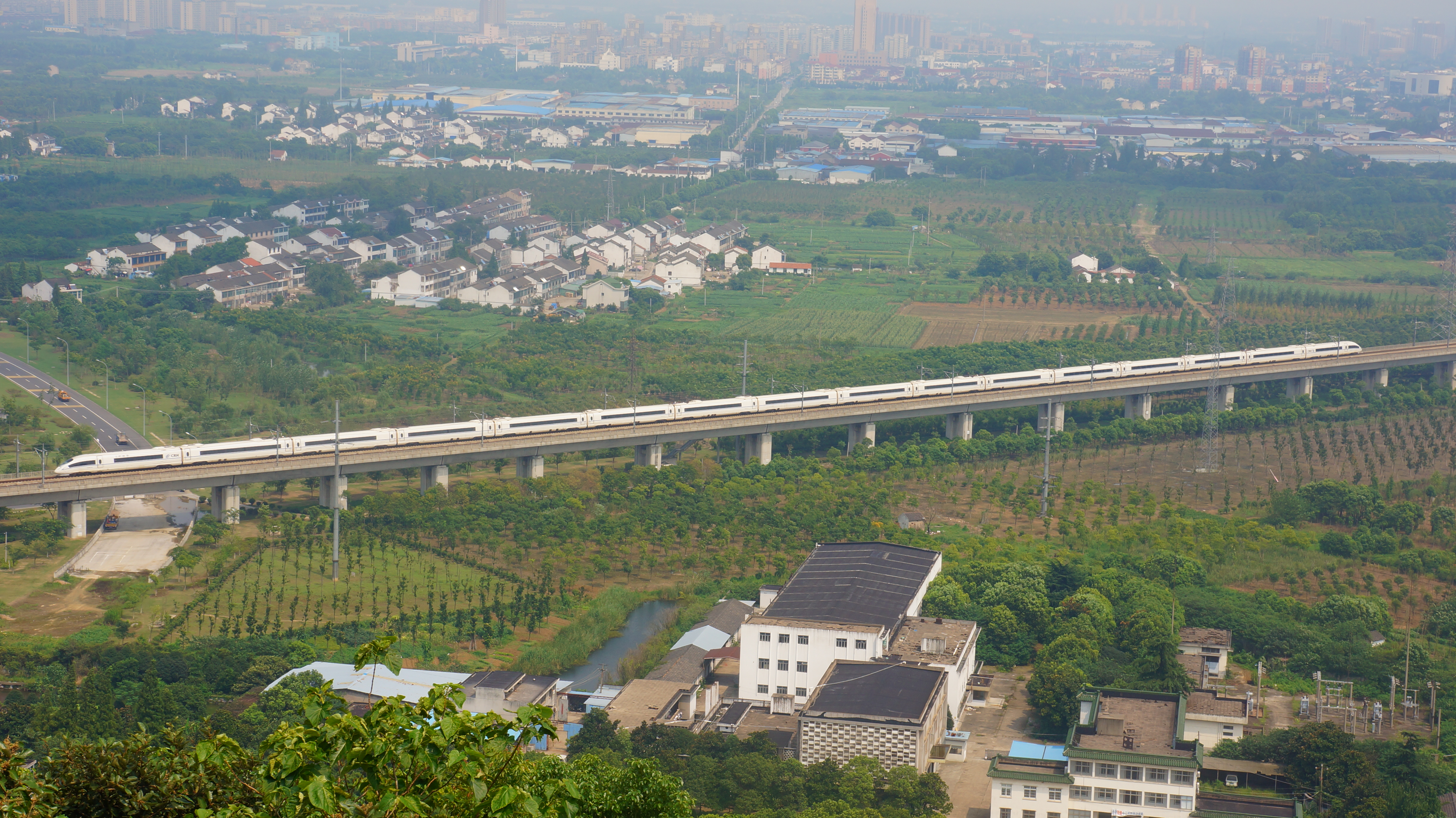 CRH380BL near Houshan,Wuxi